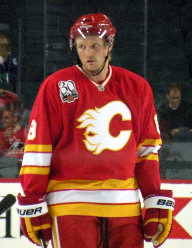 Calgary Flames defenceman Staffan Kronwall during warm-up prior to a National Hockey League game against the Vancouver Canucks, in Calgary.